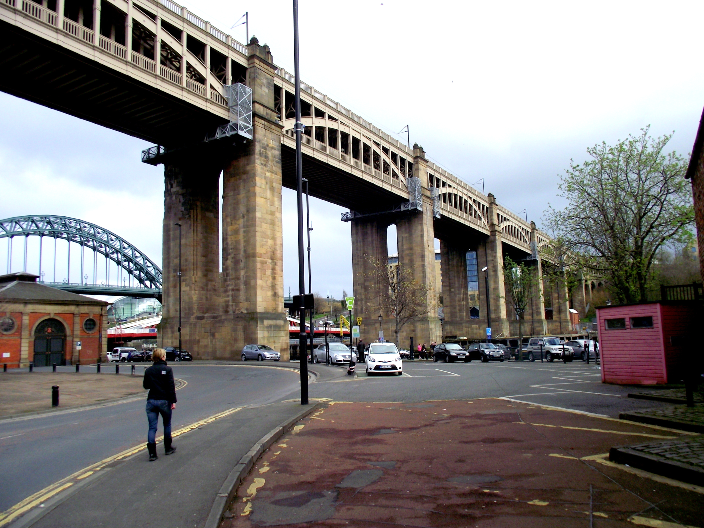 The High Level Bridge, Newcastle taken in 2014